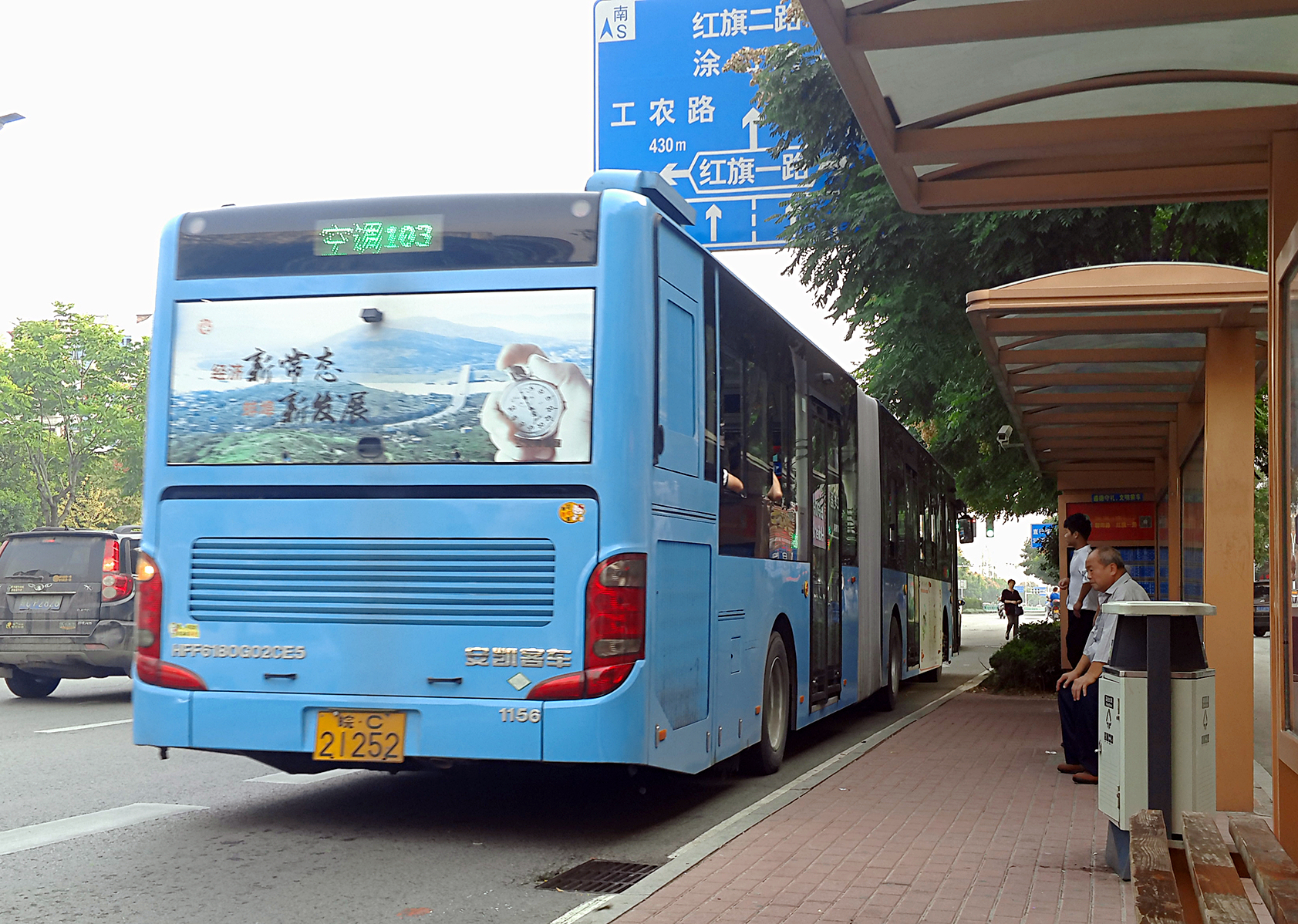 Bengbu Bus No.103 with Articulated Bus Tail